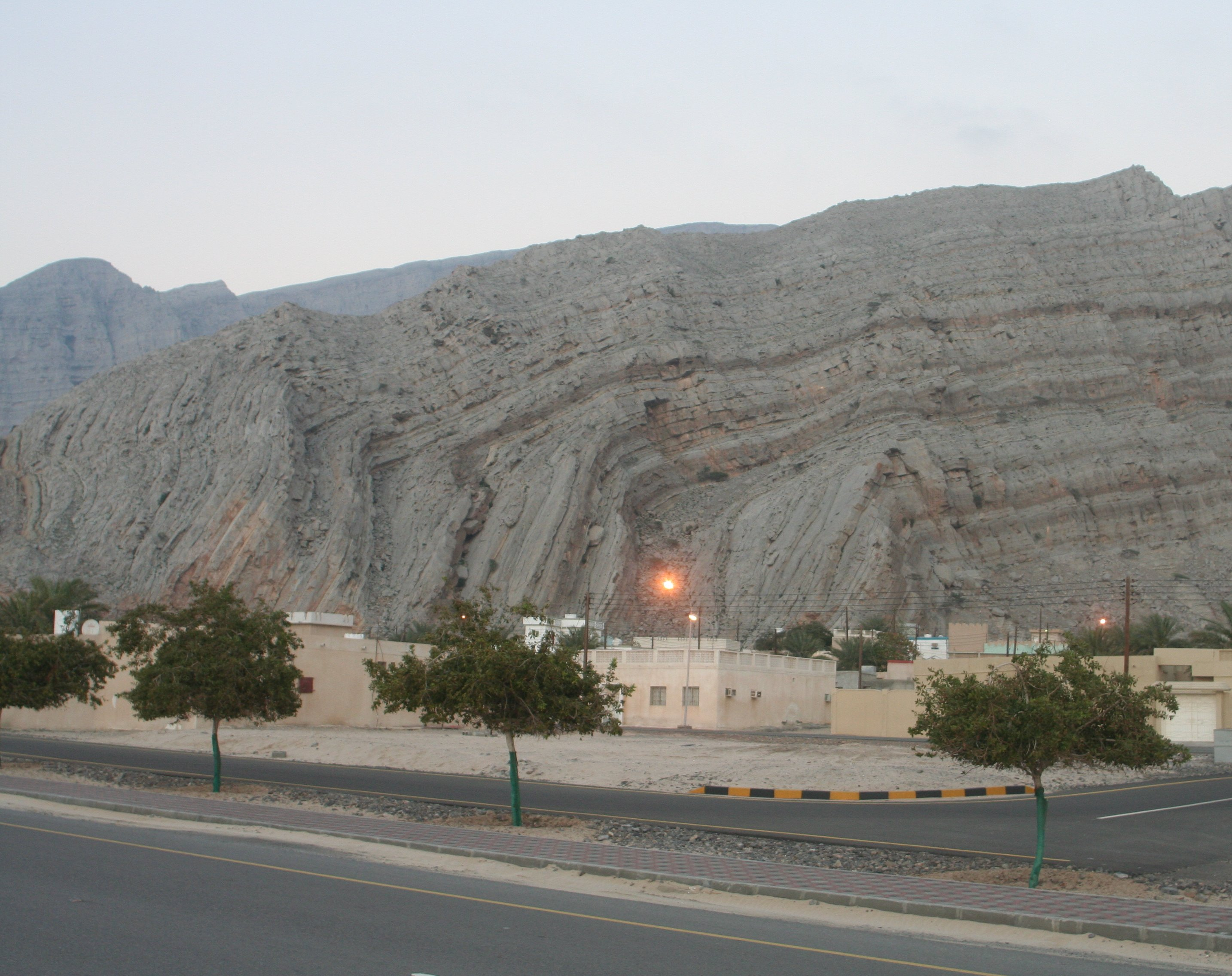 Folded sedimentary rock layers, near Khasab in Musandam, Oman.